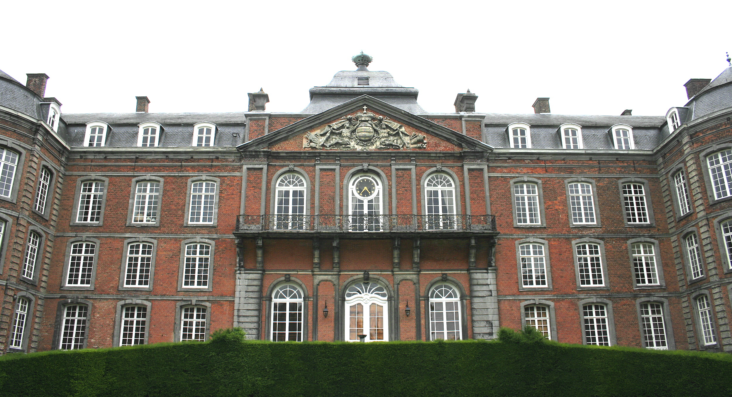 Le Roeulx (Belgium), the castle of the Princes de Croÿ (XVIIIth century).